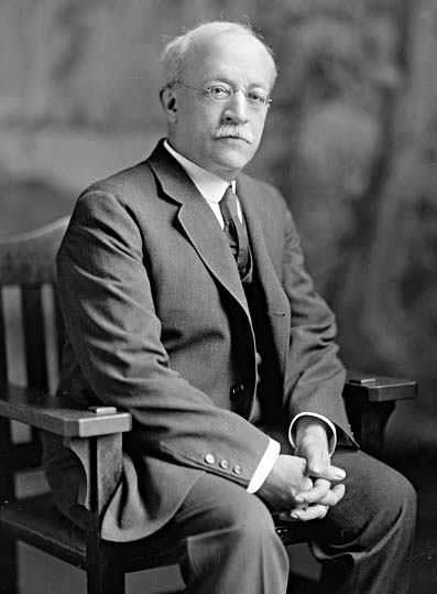 George H. Utter, Congressman from Rhode Island and Governor of that State